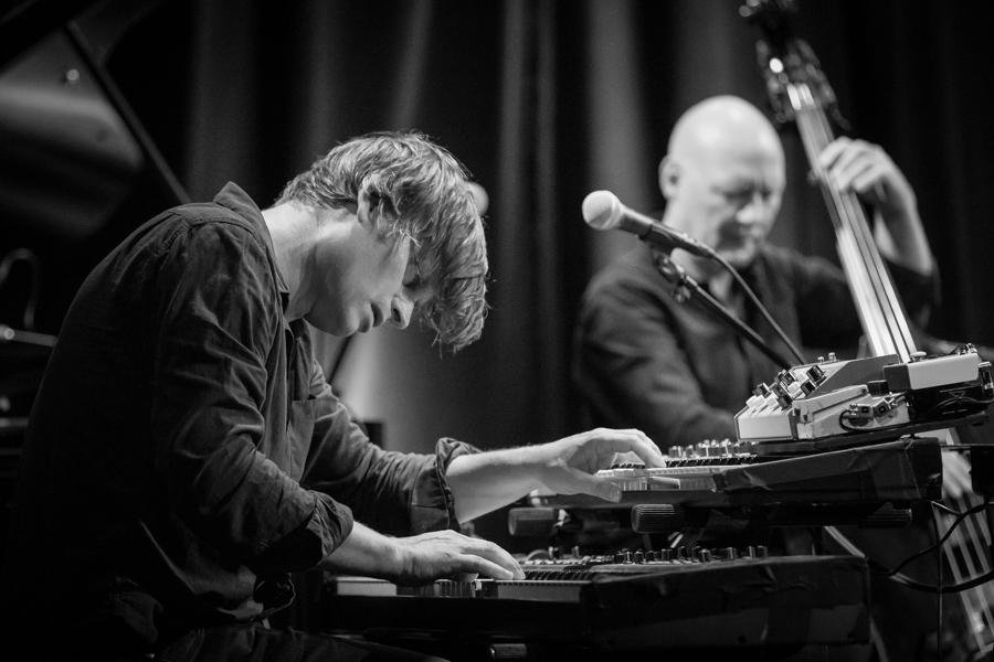 Martin Hederos in concert with Tonbruket at Victoria Teater. The concert was part of Oslo Jazzfestival and took place on 15. August 2017 in Oslo. Lineup: Dan Berglund (double bass), Martin Hederos (keyboard), Andreas Werliin (drums) and Johan Lindström (guitar).